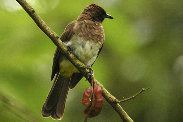 Dark-capped Bulbul Pycnonotus tricolor, Bwindi NP, SW Uganda